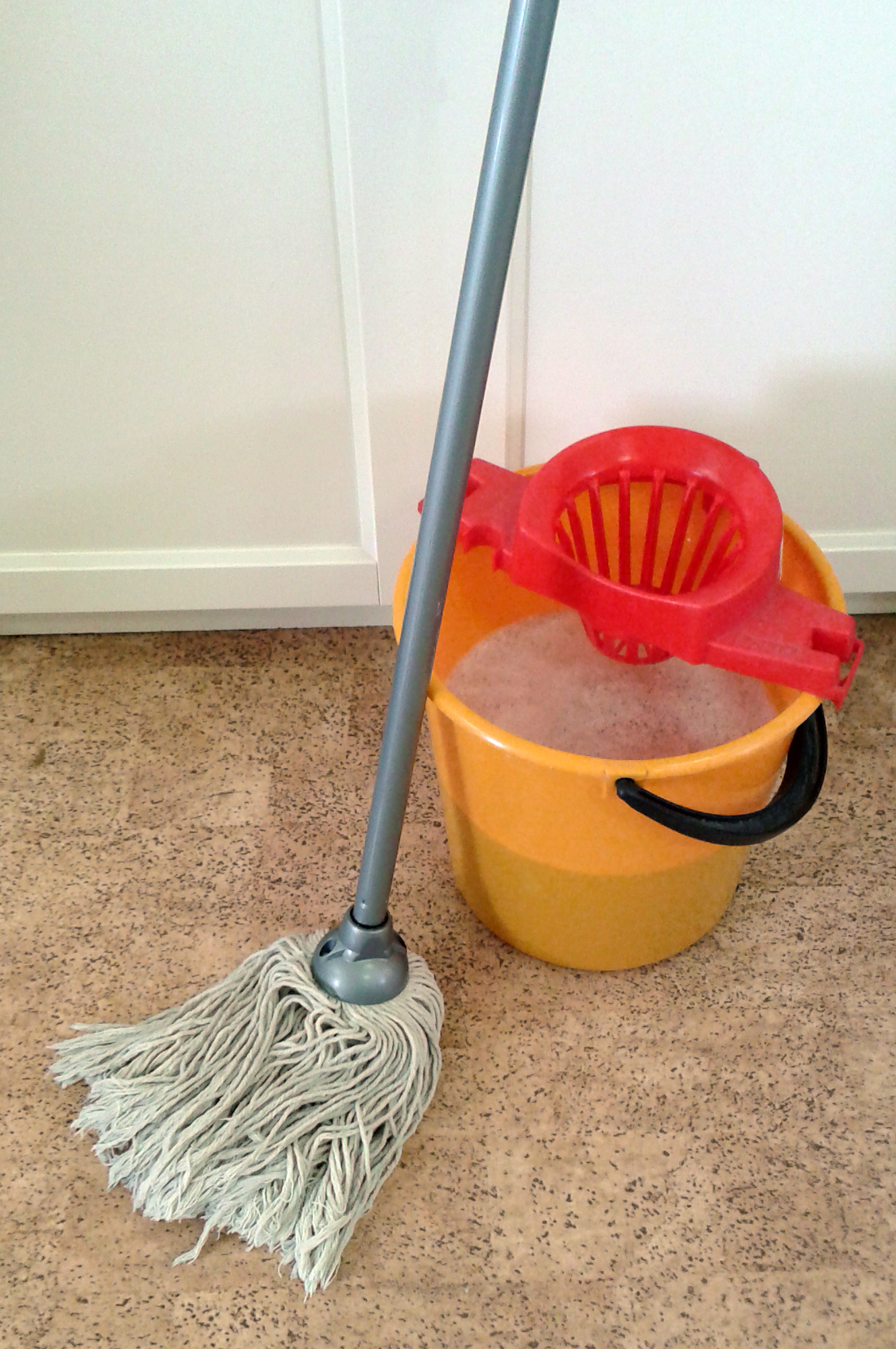 Yarn mop with plastic bucket